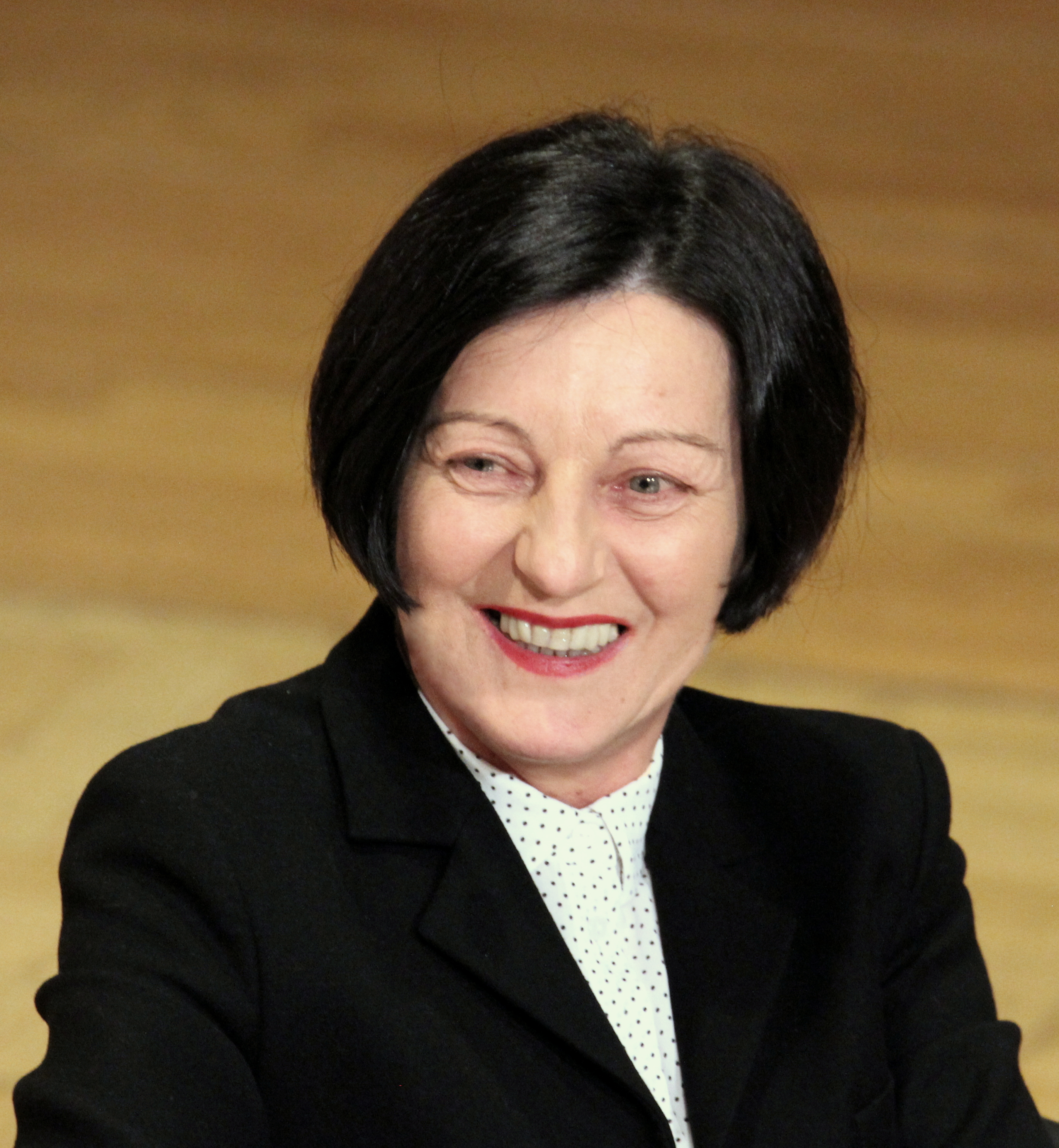 Herta Müller at Ludwig Maximilian University of Munich